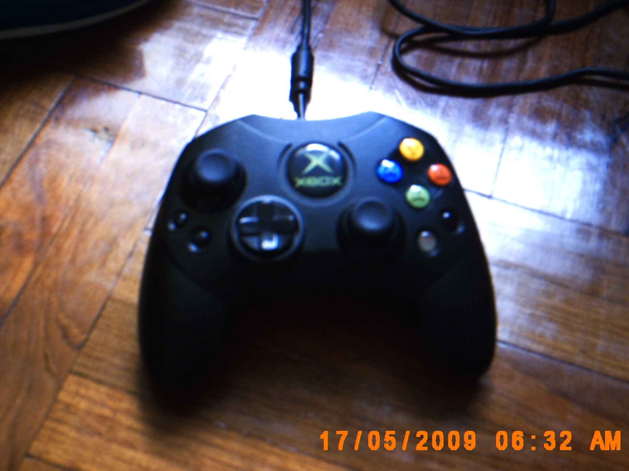 An XBOX controller S